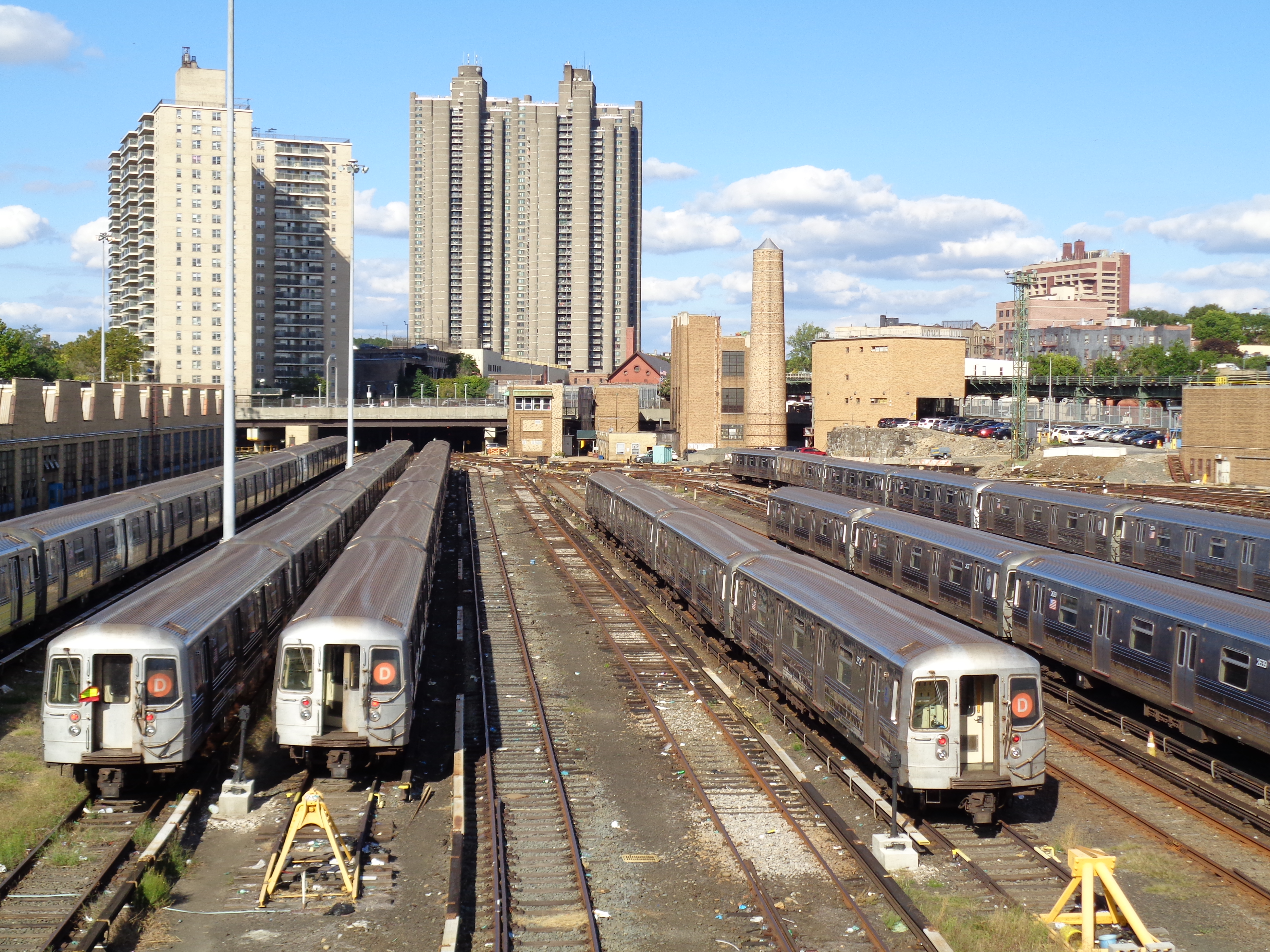 The north end of the Concourse Yard of the IND Concourse subway line, looking from the Bedford Park Boulevard overpass in Bedford Park, Bronx. Several R68 D trains are parked in the yard, awaiting rush hour. Also note the portal into the Concourse subway, and the apartment buildings built on top of the tunnel, in the background.